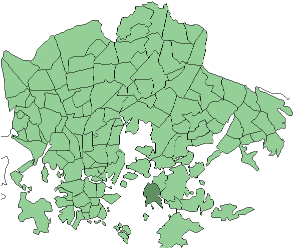 Districts of Helsinki, Tahvonlahti highlighted